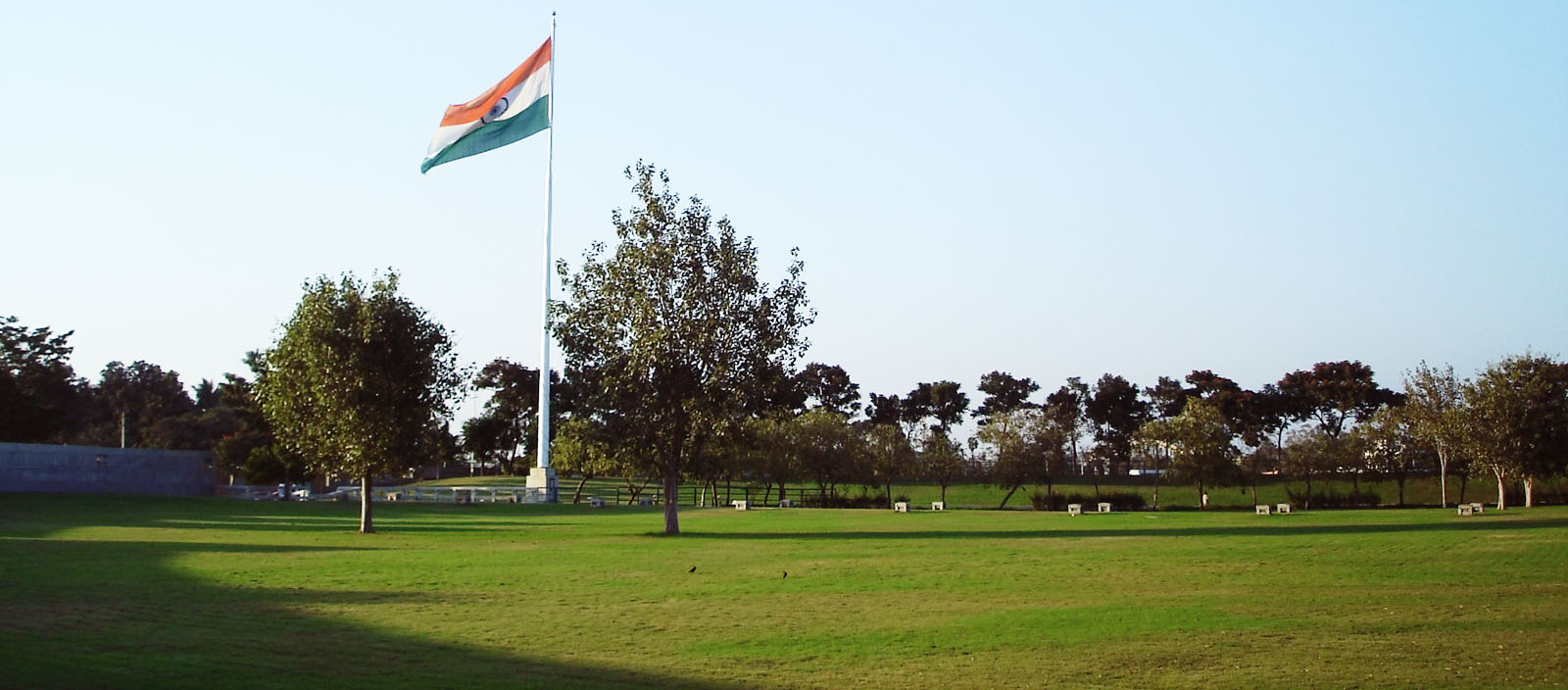 The lawn at the Rajiv Gandhi Memorial.